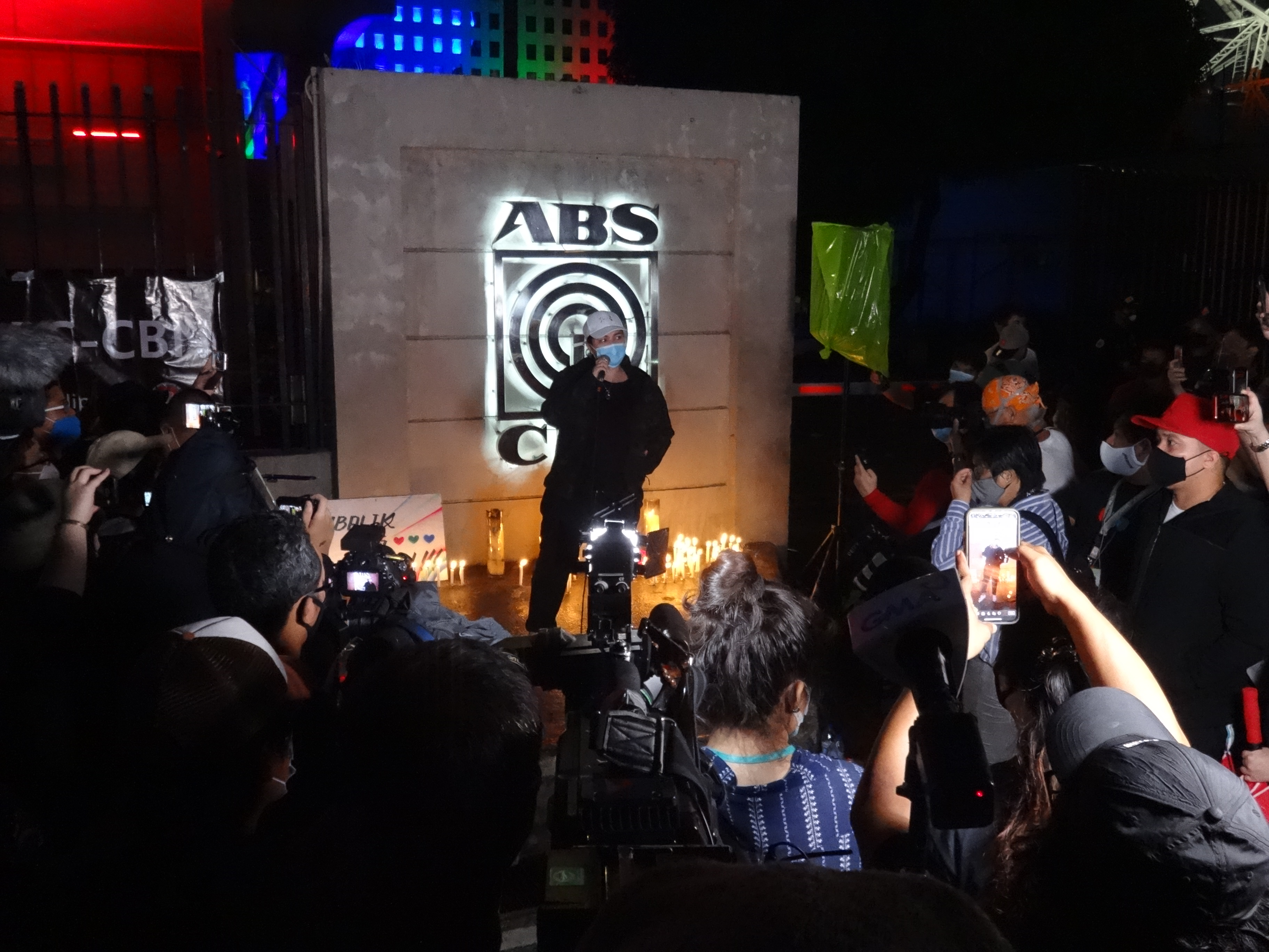 Candles were lighted outside the gate of ABS-CBN's headquarters in Quezon City after the network lost its bid for its franchise renewal in the Congress